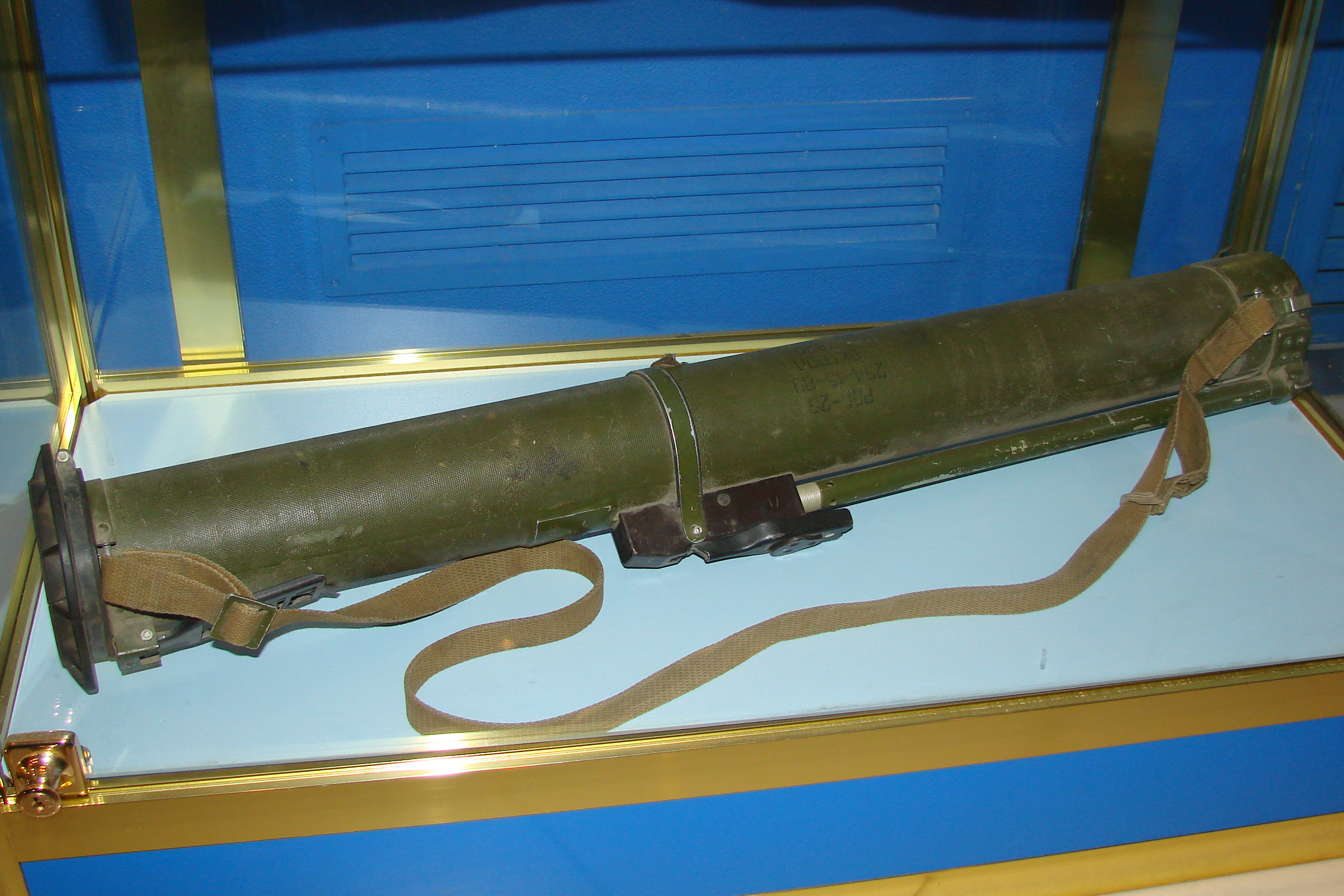 Russia, Vologda, militsiya museum, Grenade launchers RPG-26